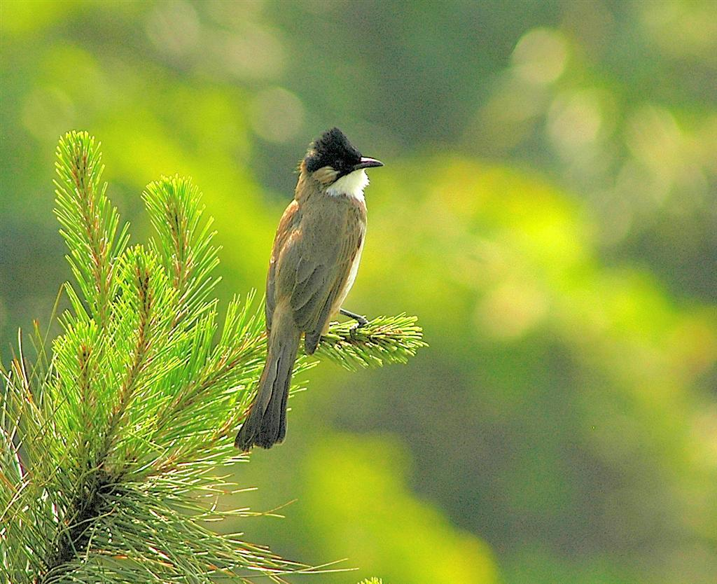 Brown-breasted Bulbul Pycnonotus xanthorrhous, Chongqing, Sichuan, China.